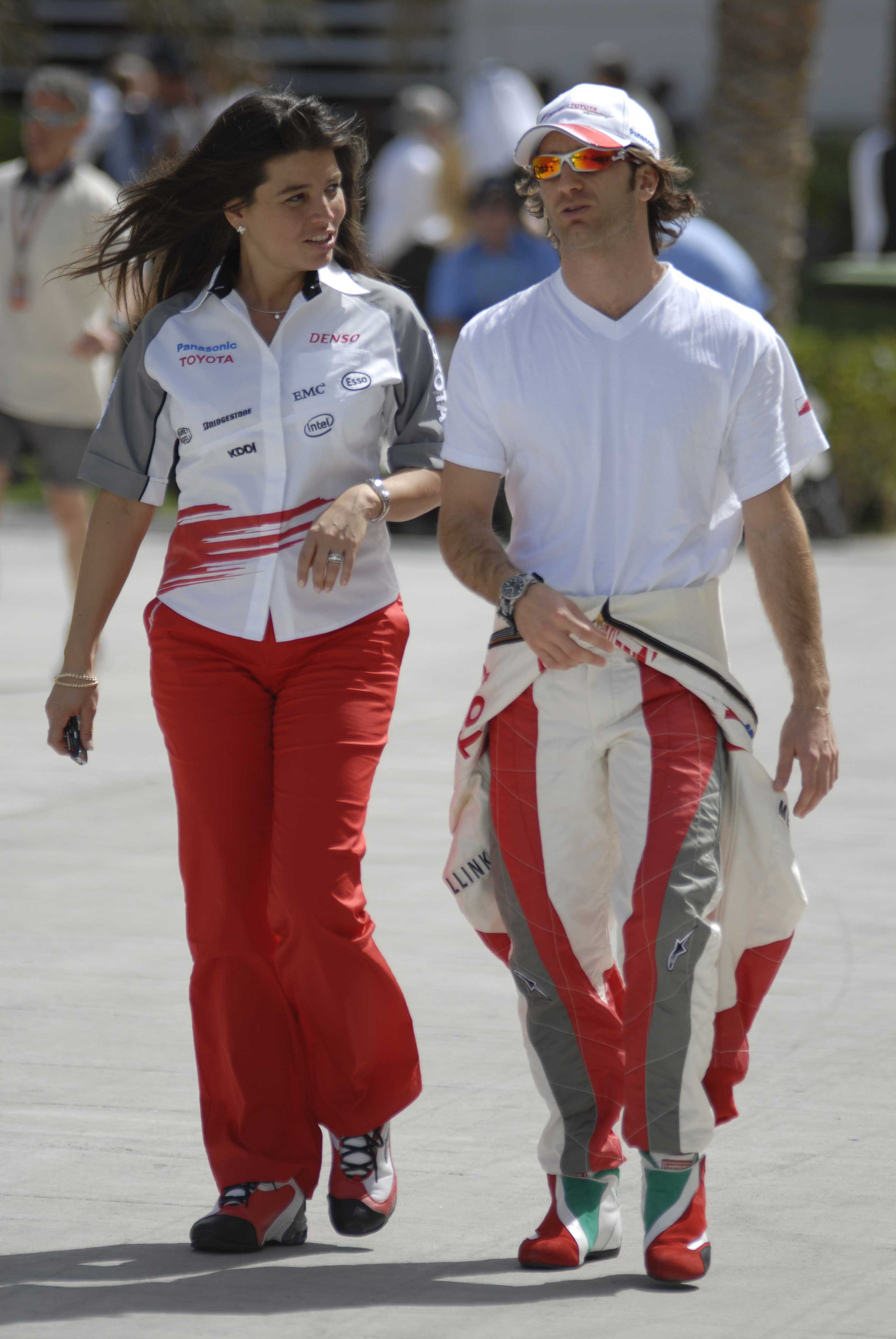 Jarno Trulli (right) Toyota (2006)